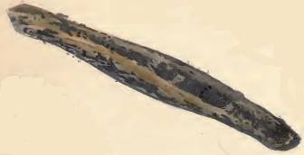 Stainton’s Natural History of the Tineina (1855–1873): Coleophora odorariella larval case